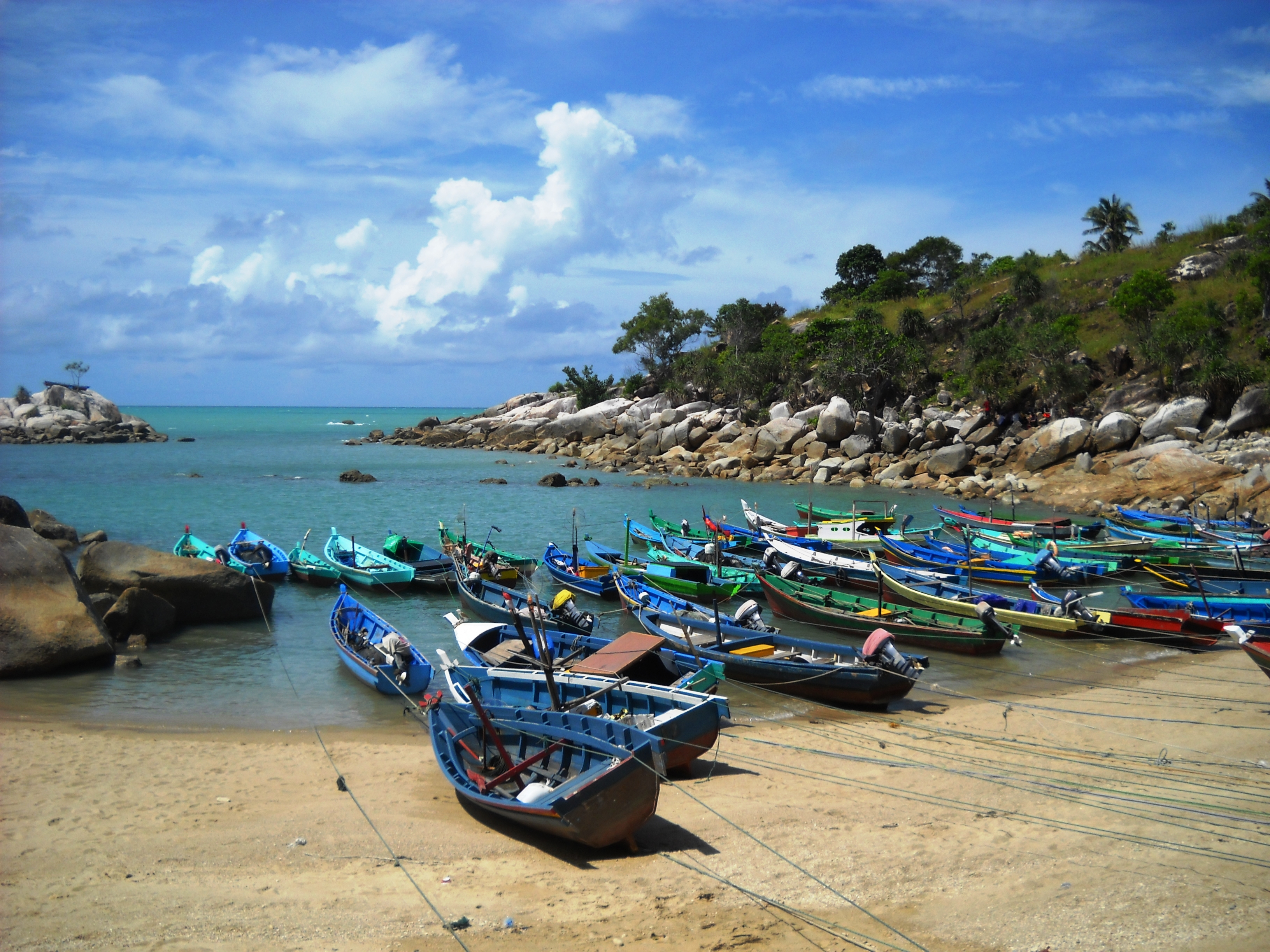 Fishermen boats in Turun Aban Beach, Sungailiat, Bangka.